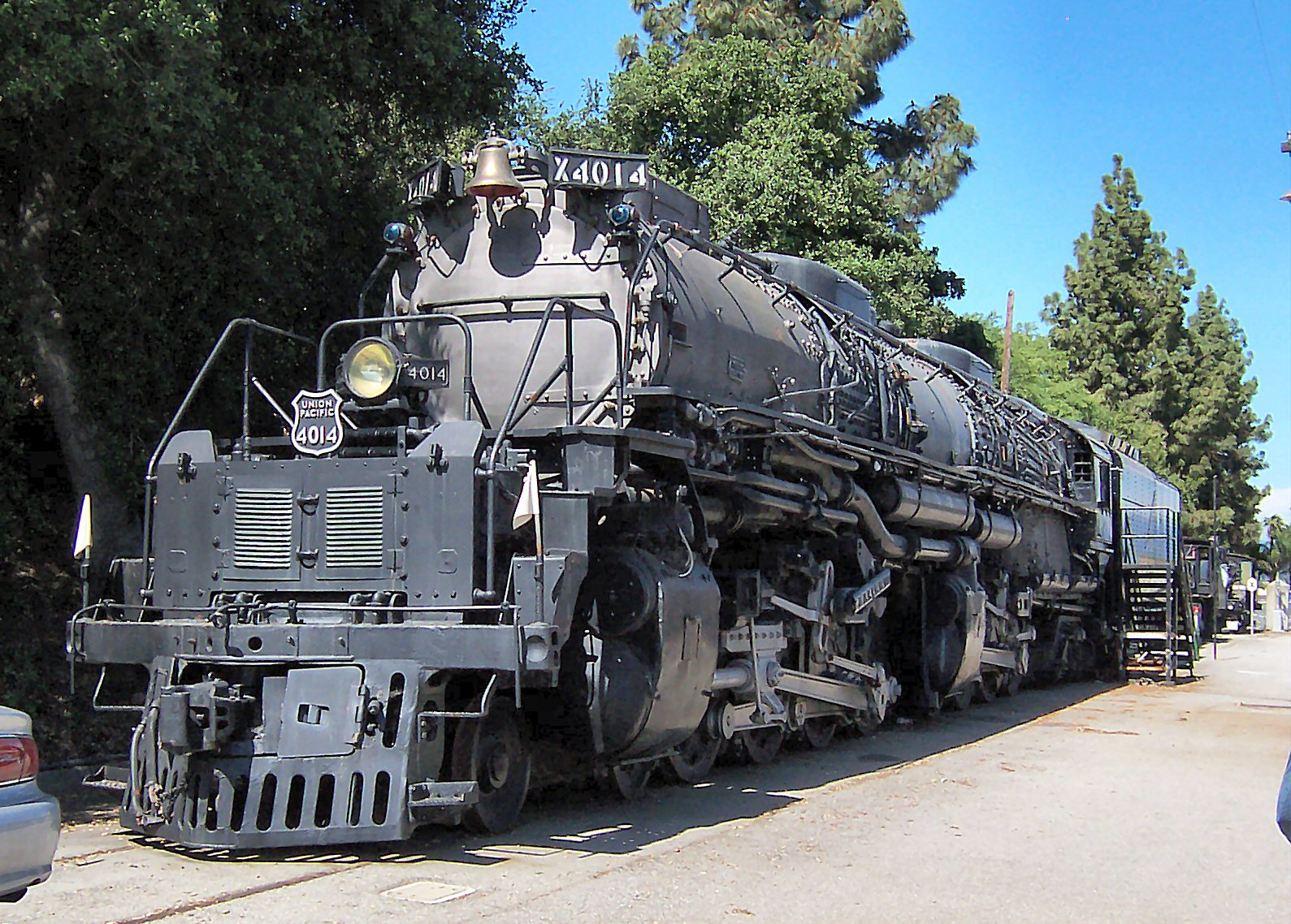 Union Pacific 4-8-8-4 "Big Boy" #4014, preserved by the Railway and Locomotive Historical Society's Southern California chapter at Pomona Fairplex, Pomona, California, USA.